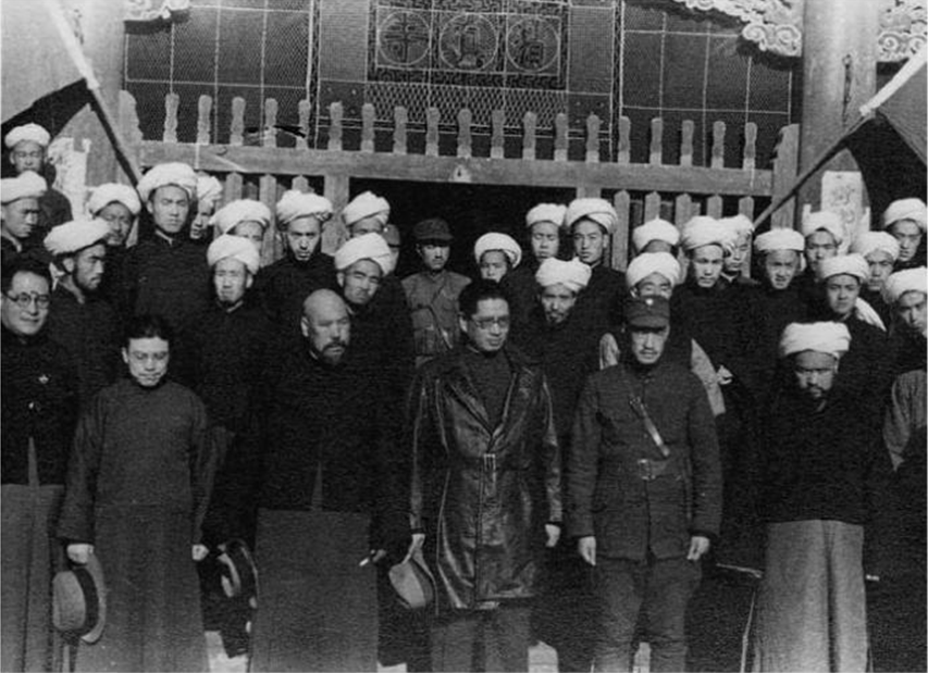 T. V. Soong, former premeir of the Republic of China visits a Mosque in Xining Qinghai in May 1934. In public domain since over 50 years have passed in Republic of China since publication. The Photo was in the possesion of Michael Feng.